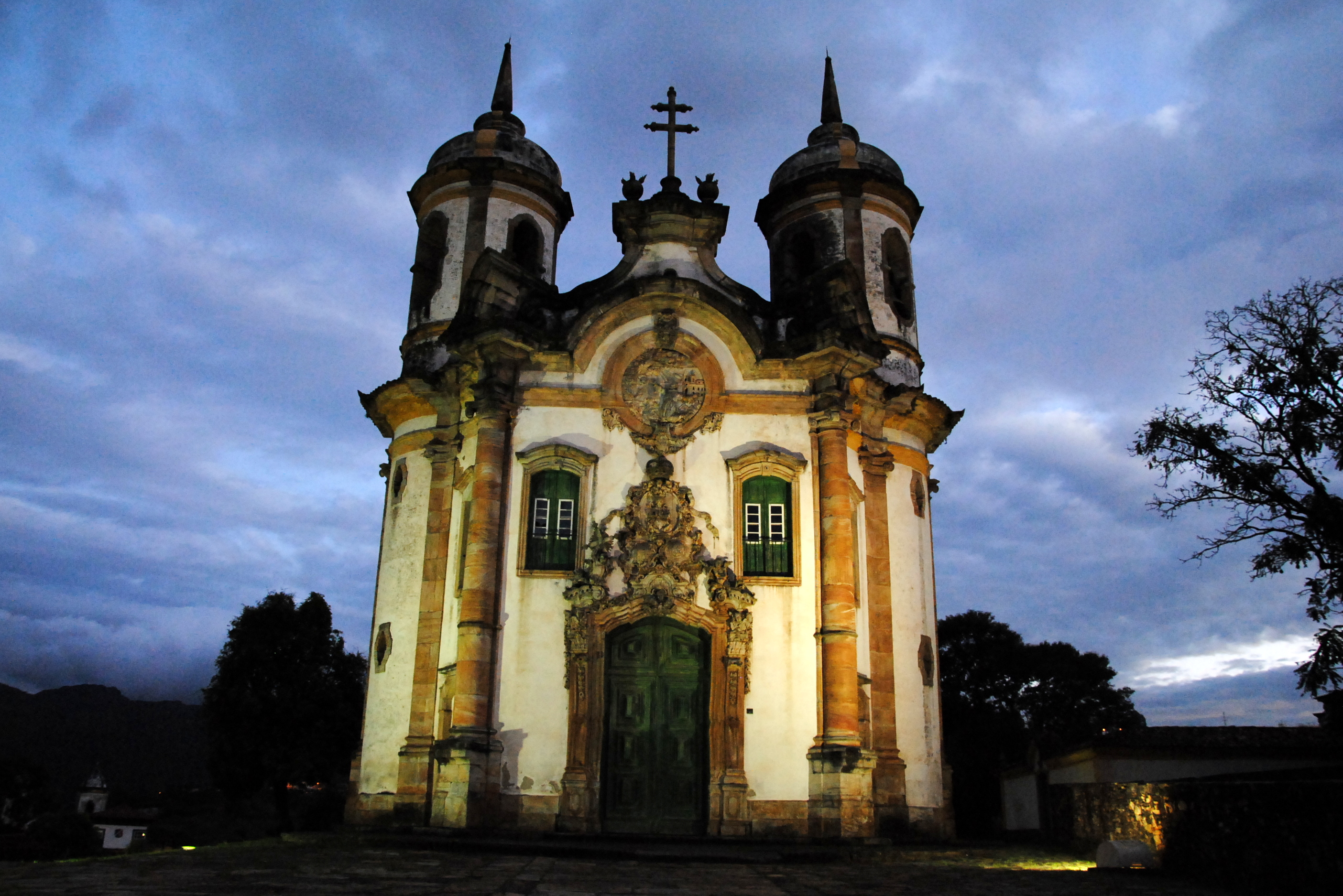 The historical colonial city of Ouro Preto, in the Brazilian state of Minas Gerais